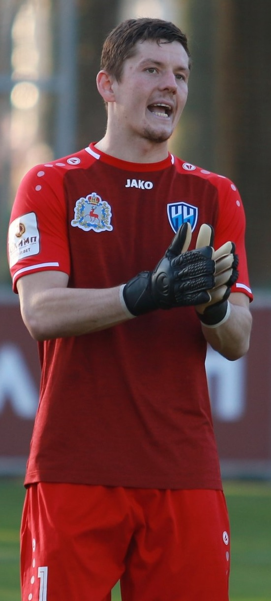 Artur Anisimov with FC Nizhny Novgorod in a game against FC Krasnodar-2.